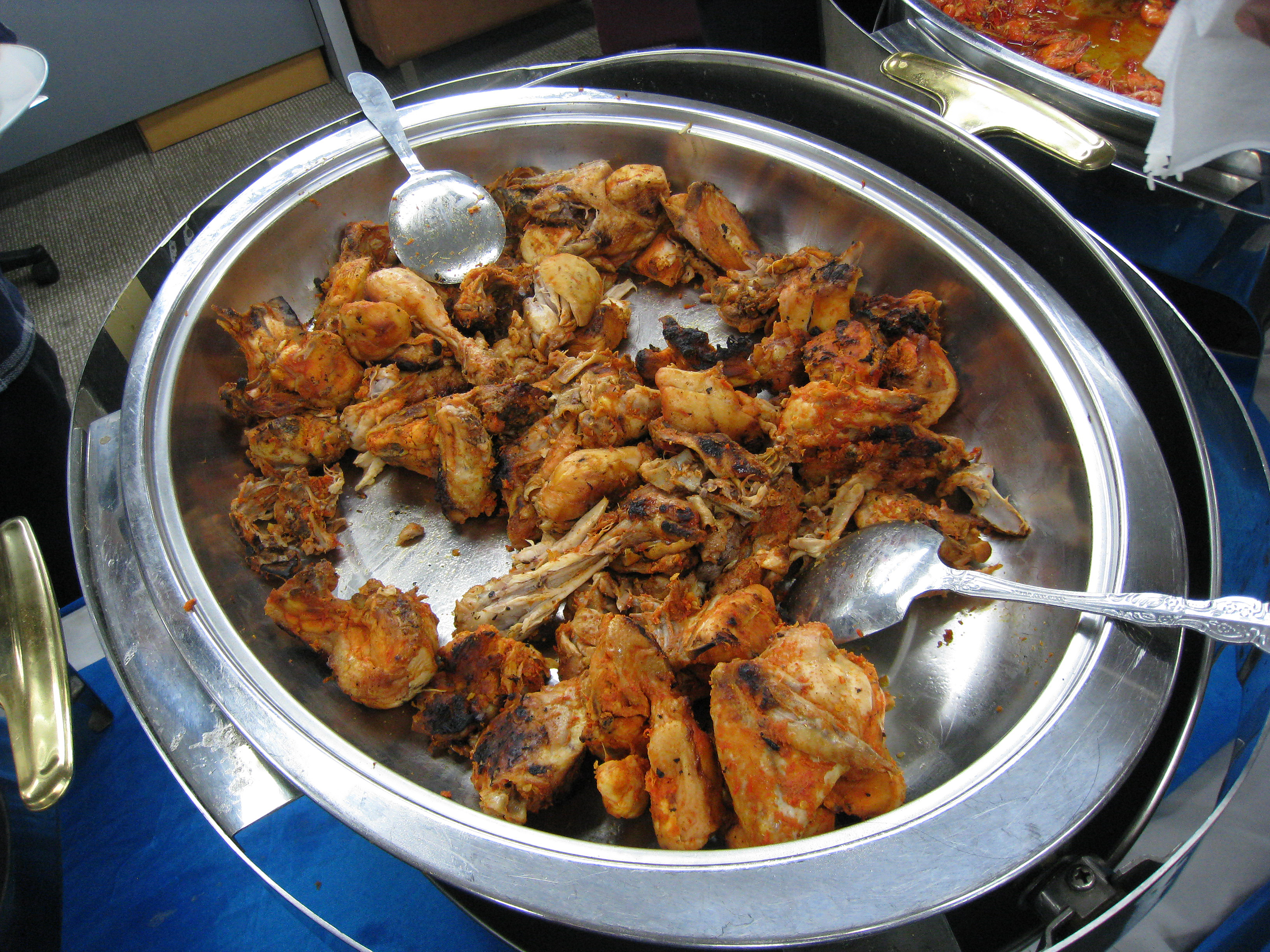 Ayam bakar bumbu rujak is an Indonesian grilled chicken in spicy rujak spices, served in a prasmanan (buffet) in Jakarta, Indonesia.